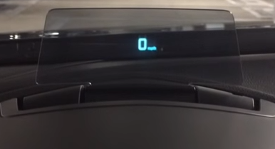 This is an automotive heads up display that utilizes a combiner.